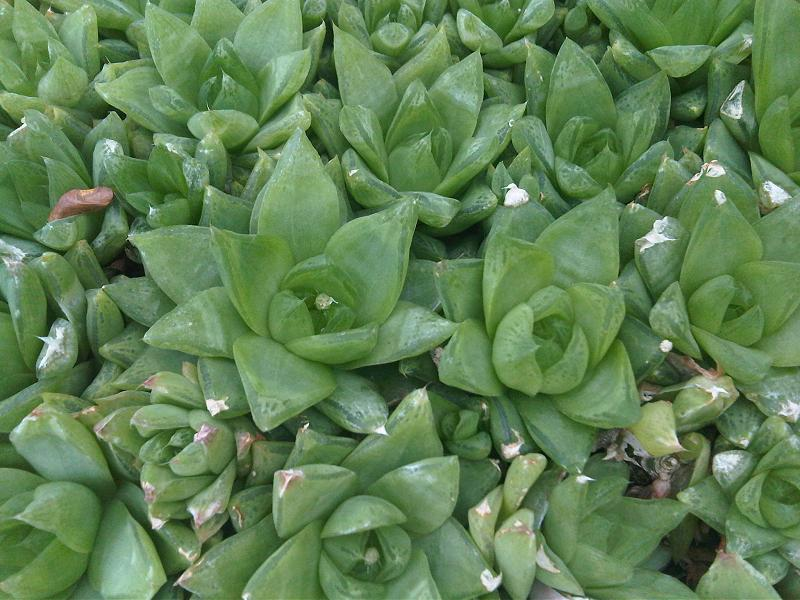 Haworthia cymbiformis at Kew Gardens, England.